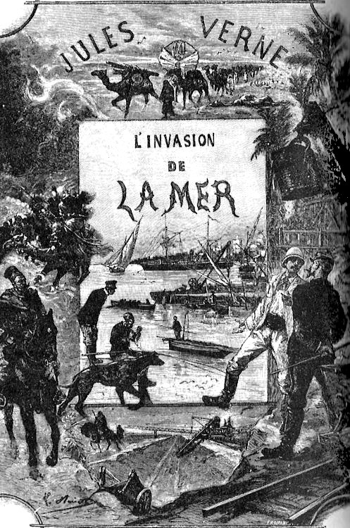 An illustration from Jules Verne's novel "Invasion of the Sea" (1905) drawn by Léon Benett.